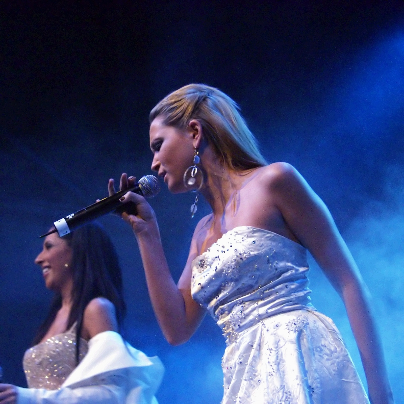 Mandy Capristo, Monrose, performs on the charity concert "Cover me" at Palladium, Cologne, Germany.